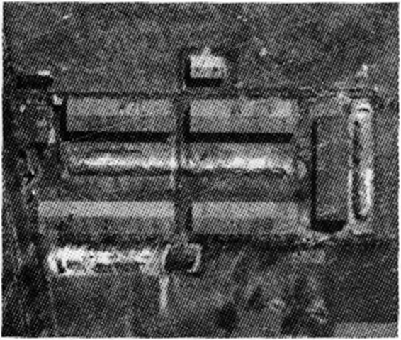 Hamburg (Neuengamme), Germany. KZ Bremen-Obernheide for Polish and Hungarian prisoners during World War II; the female subcamp of Nazi concentration camp KZ Neuengamme. An aerial reconnaissance photograph.